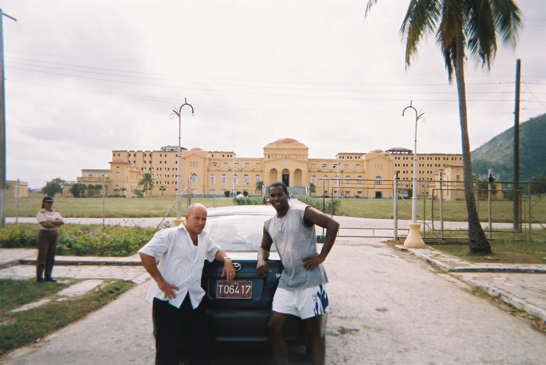 Presidio Modelo, Administration building.